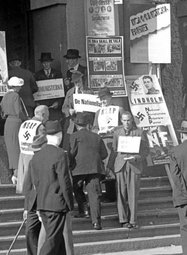 Distribution of ballot papers outside a polling station in Sweden, 1936. Party activists of the Communist Party, National League and National Socialist Workers Party are seen. Election poster of Socialist Party in background. Year of publication can be identified to 1936 as this was the sole election when these 4 parties contested under these names.